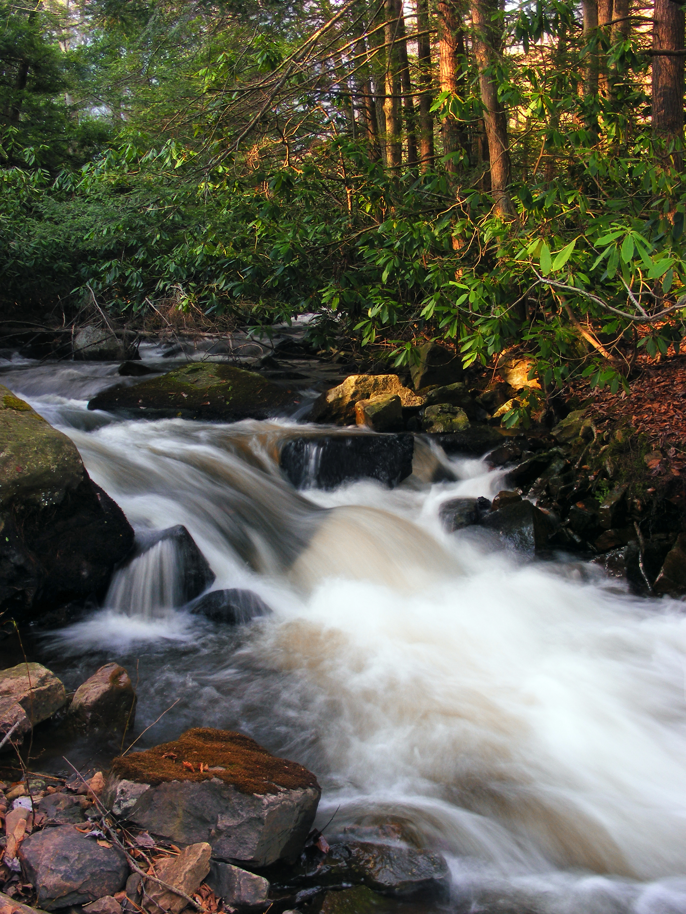 Small waterfall on Rapid Run, Bald Eagle State Forest, Union County.